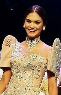 Pia Alonzo Wurtzbach image taken during the Binibining Pilipinas 2015 Fashion Show in Smart Araneta Coliseum